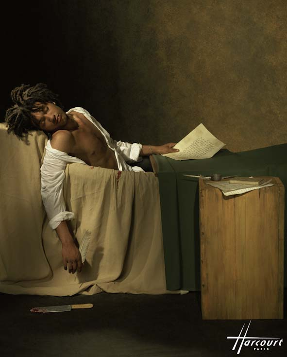 Doc Gynéco photographed by Studio Harcourt Paris. Inspired by The Death of Marat by Jacques-Louis David.